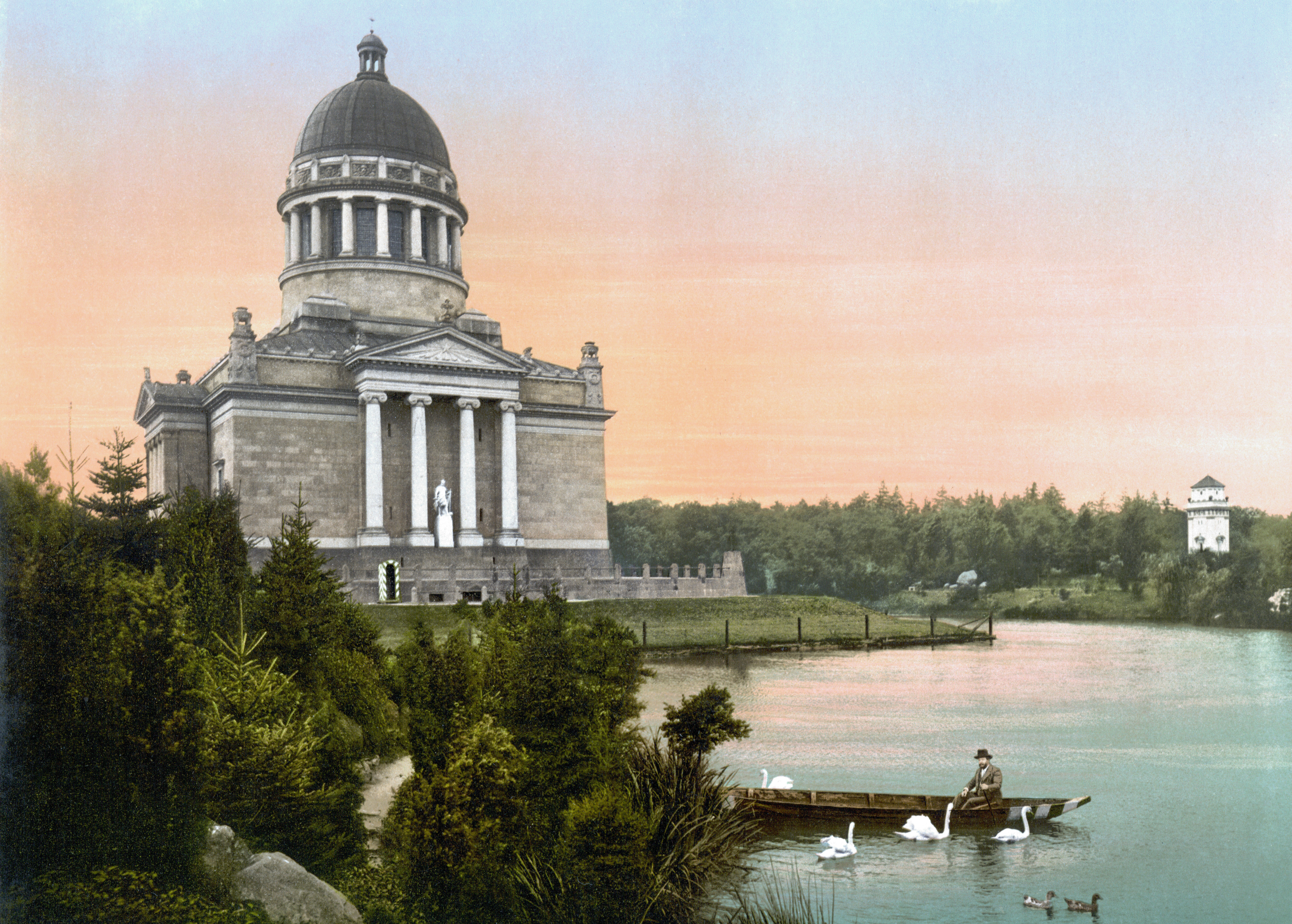 Dessau, Germany, mausoleum of the princes of Anhalt